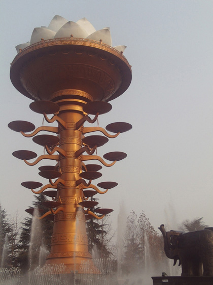 Giant Lotus Flower at Renmingongyuan